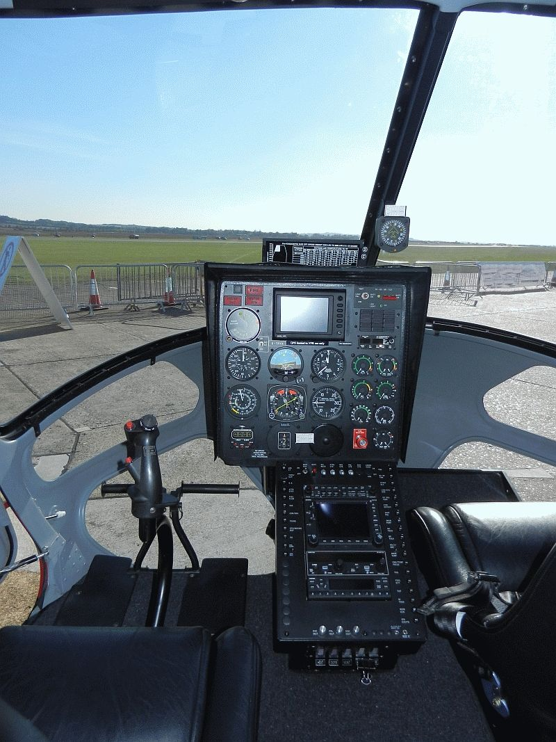 Cockpit of an Enstrom 480B.